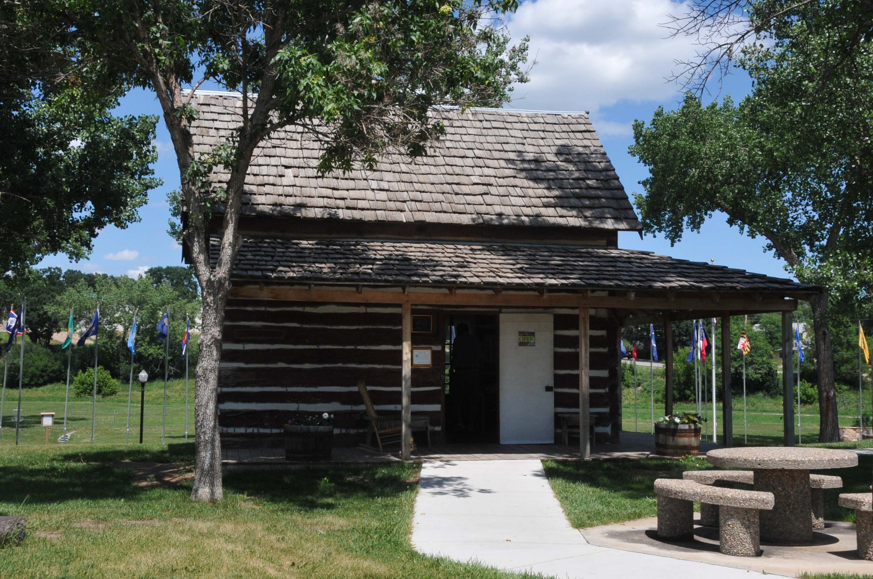 JOHNNY BUILT THIS TWO STORY CABIN IN 1876. IT WAS NO ORDINARY CABIN; THE HAND-HEWED LOGS HAD BEEN HAULED FROM THE HILLS BETWEEN CROOK CITY AND DEADWOOD. THE CABIN WAS ORIGINALLY LOCATED ON THE LOWER REDWATER RIVER JUST NORTH OF HIGHWAY 32 NEAR BELLE FOURCHE. JOHNNY BUILT THIS TWO STORY CABIN IN 1876.